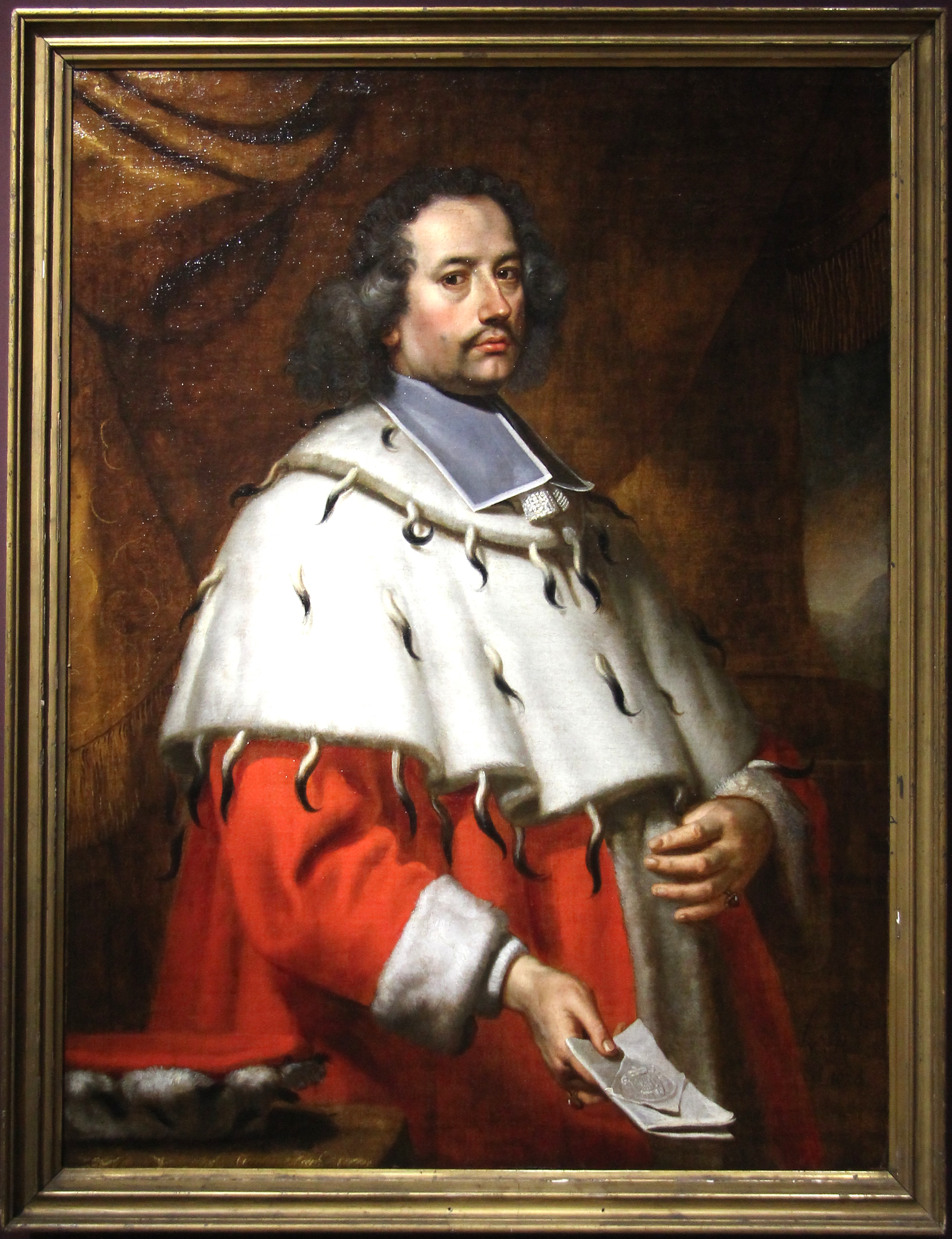 Johann Hugo von Orsbeck (1634-1711), Electorate of Trier 1676-1711